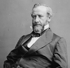 Kentucky Congressman Robert Mallory